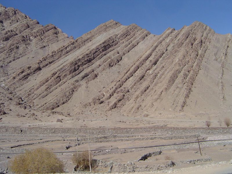 Mountains in Ladakh from Rishi Saikia's gallery: [1]